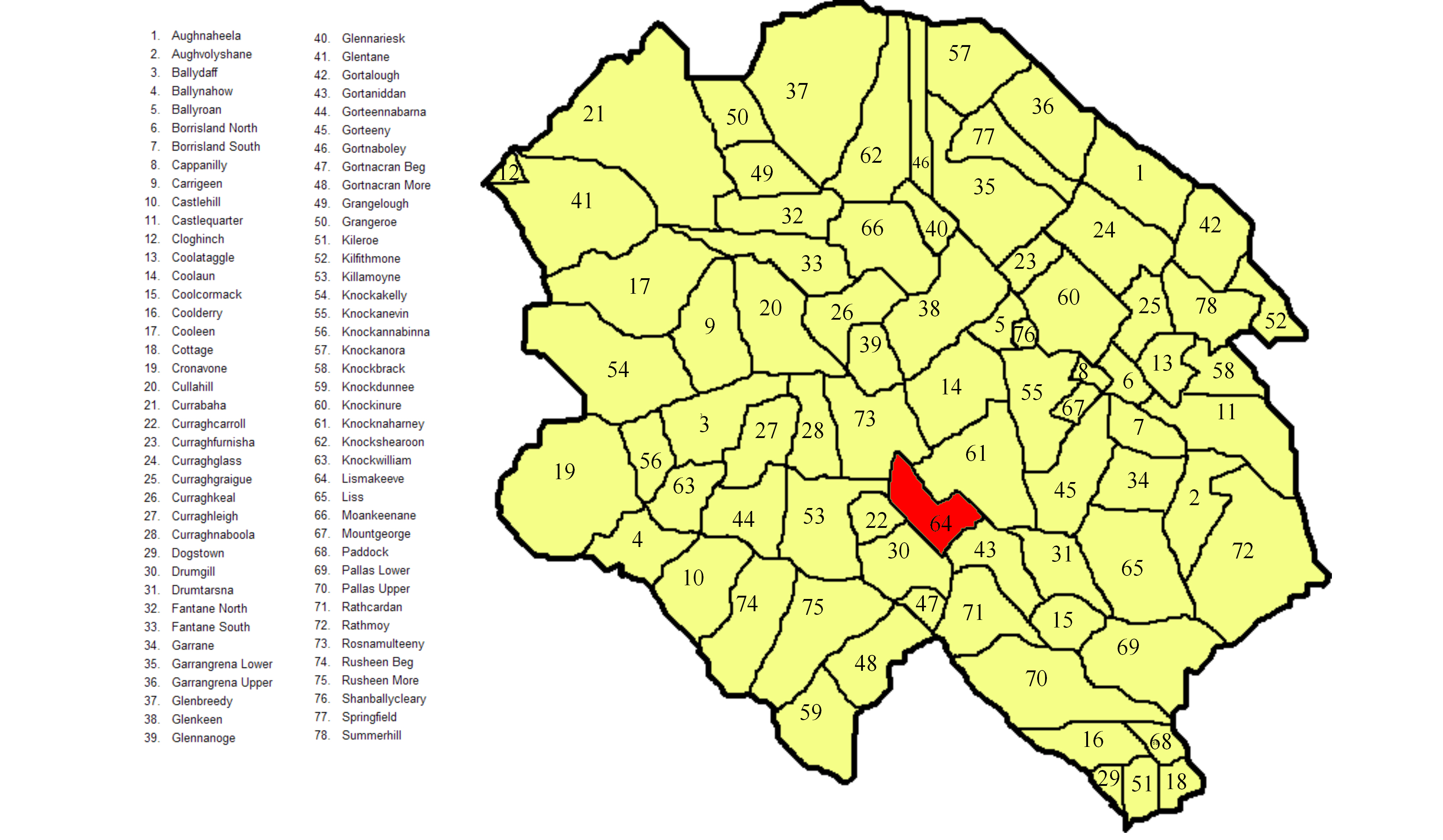 Location of Lismakee townland within Klenkeen civil parish in North Tipperary